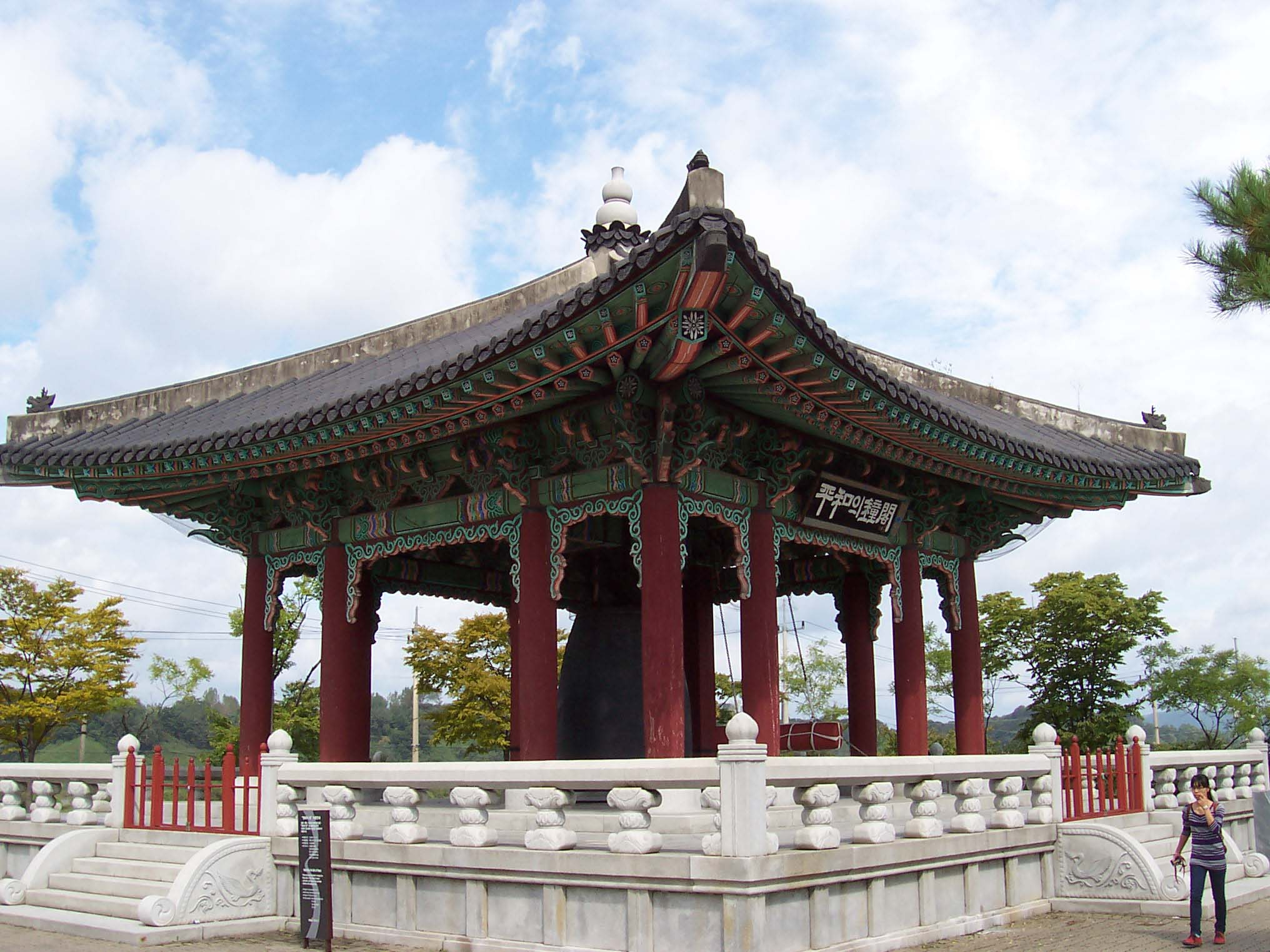 Peace Bell at Imjingak